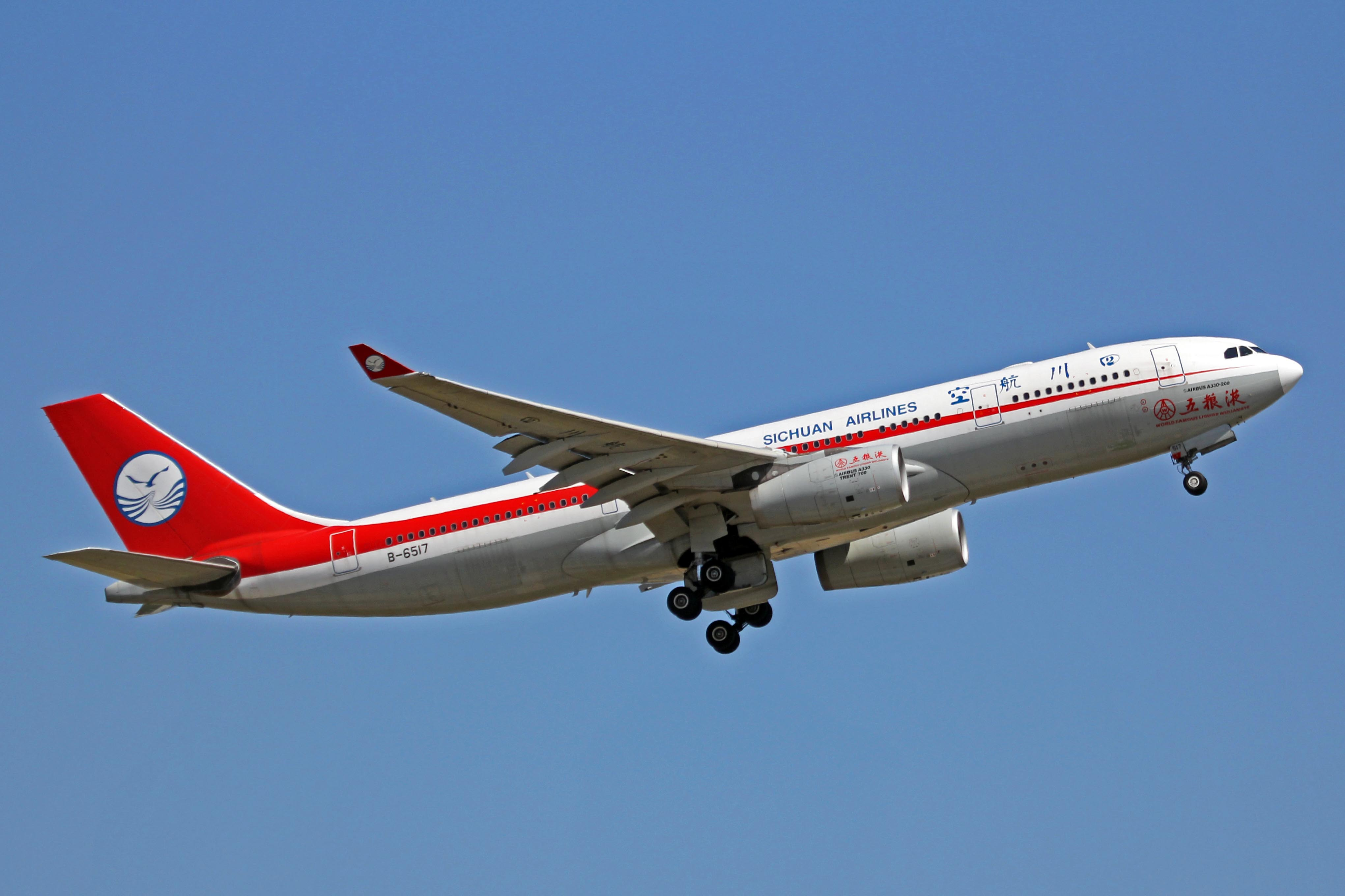 With additional 'World Famous Liquor Wuliangye' titles & logo on engines and forward fuselage.